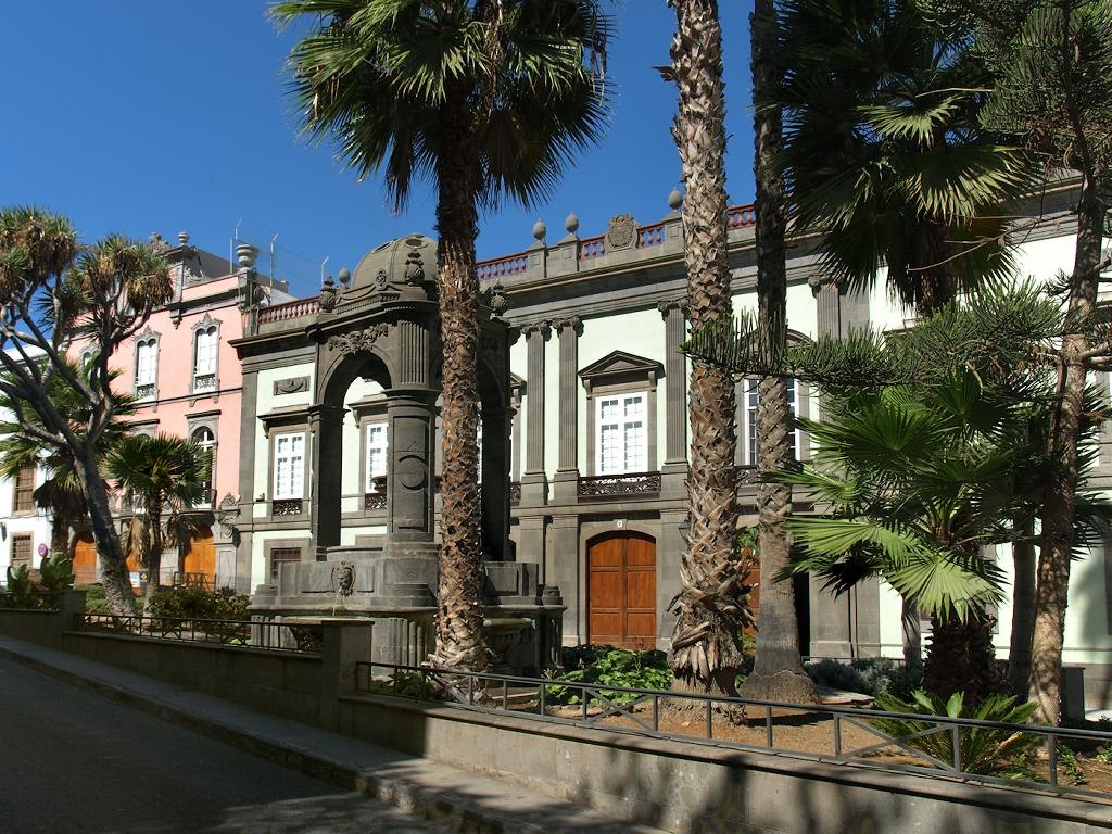 Las Palmas de Gran Canaria ,Plaza Espiritu Santo, photo 2009